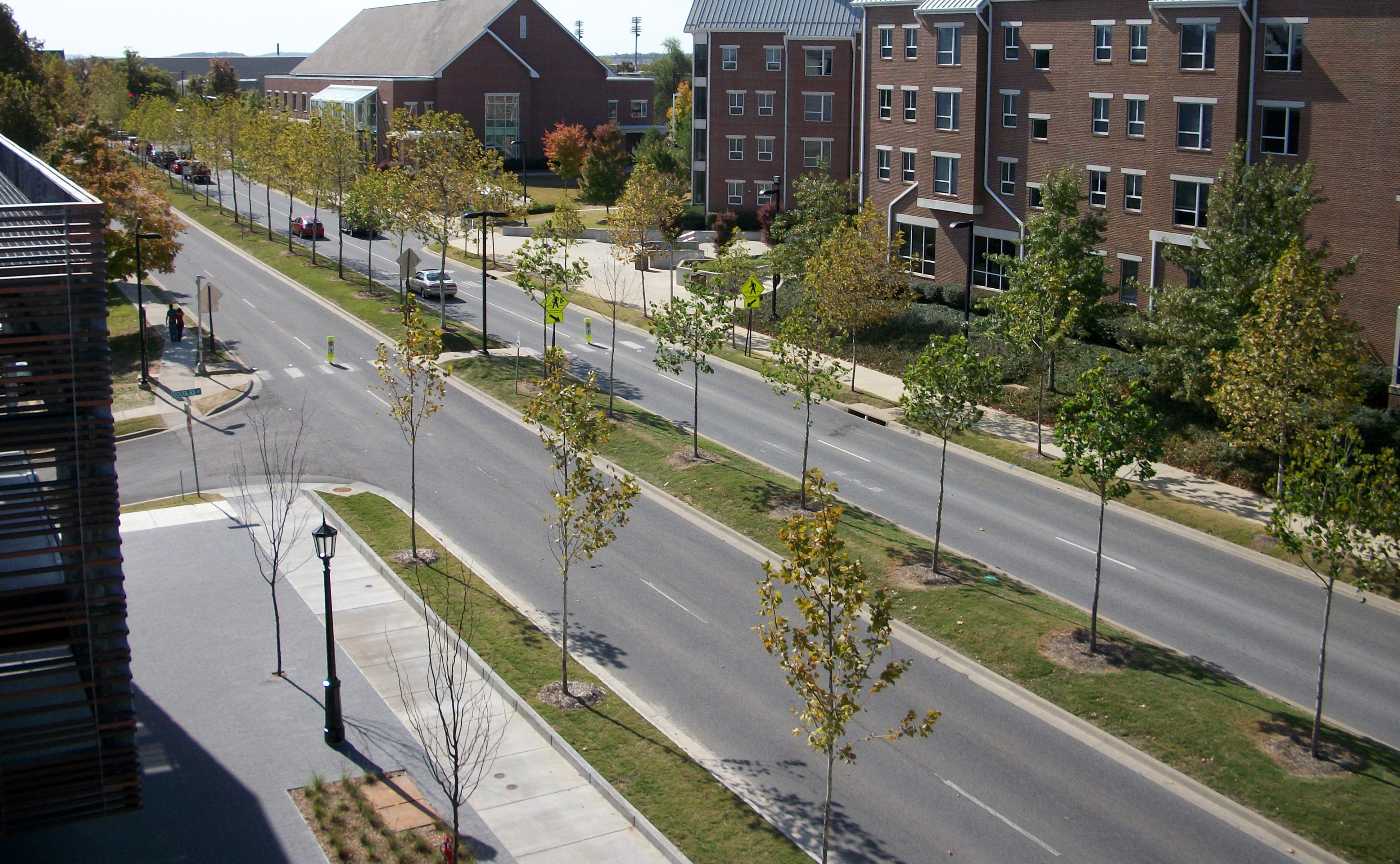 Garland Avenue in Fayetteville, AR. This road is also named Arkansas Highway 112. This picture is facing southwest. Buildings in the background include the Pat Walker Health Center and Northwest Quad Building B.